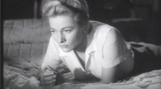 Cropped screenshot of Joan Fontaine from the trailer for the film Until They Sail